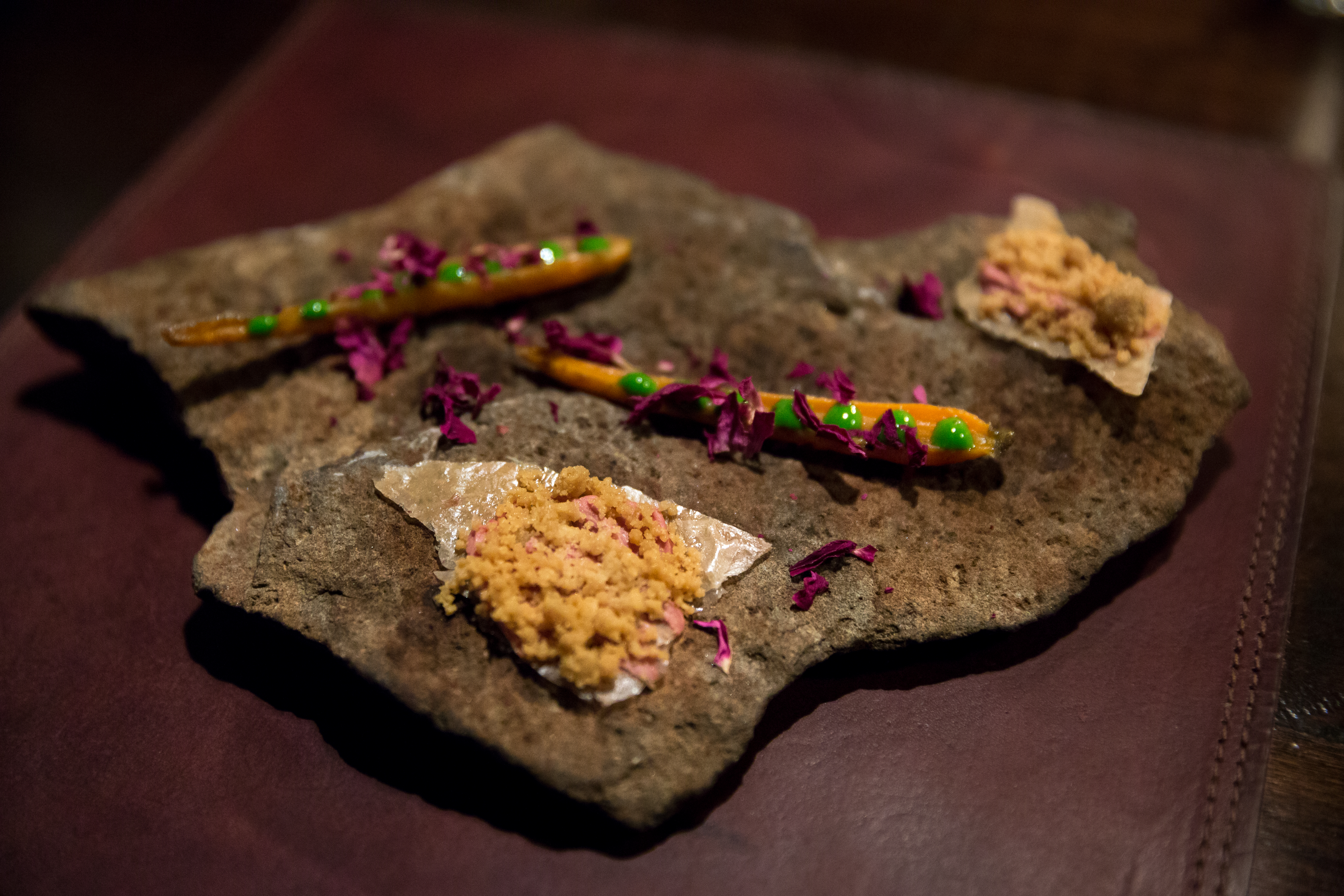 Iceland - Dill (Sep 2016) - IMG_2911